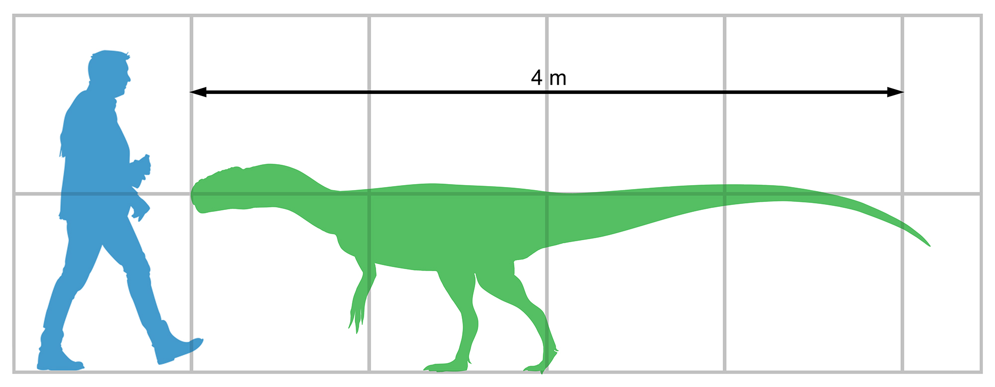 Size of Chuandongocoelurus compared to human.